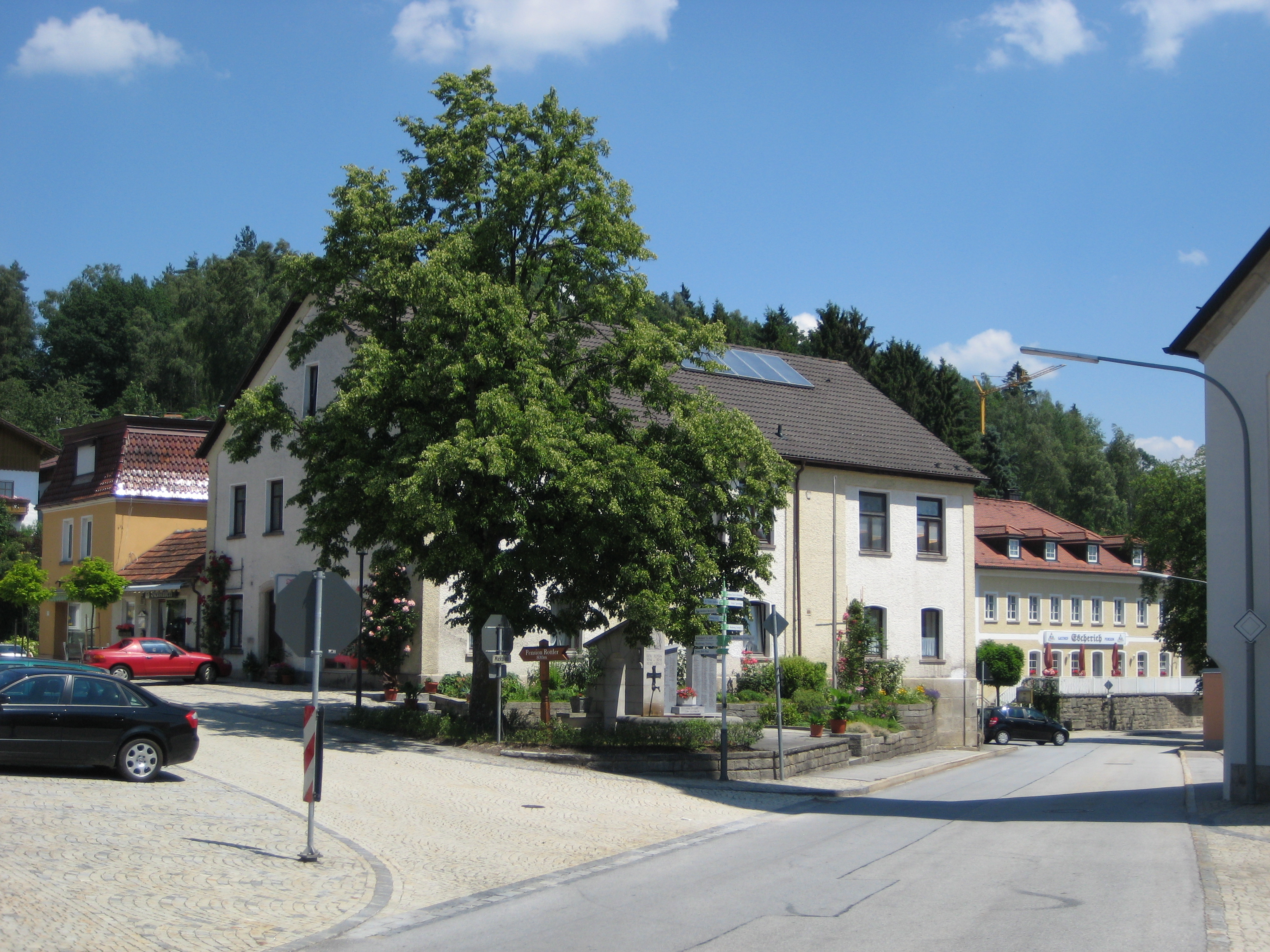 Marketplace of Büchlberg